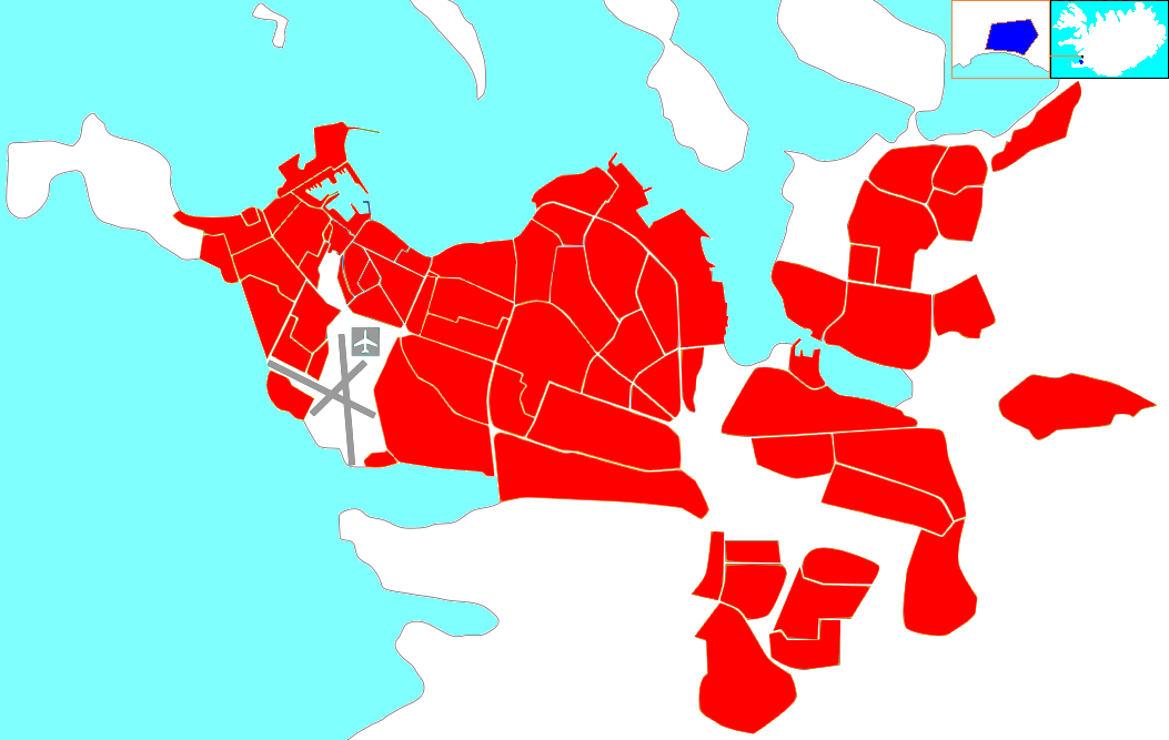 Locator map of the district Kjalarnes (blue) within the municipality of Reykjavik (red).